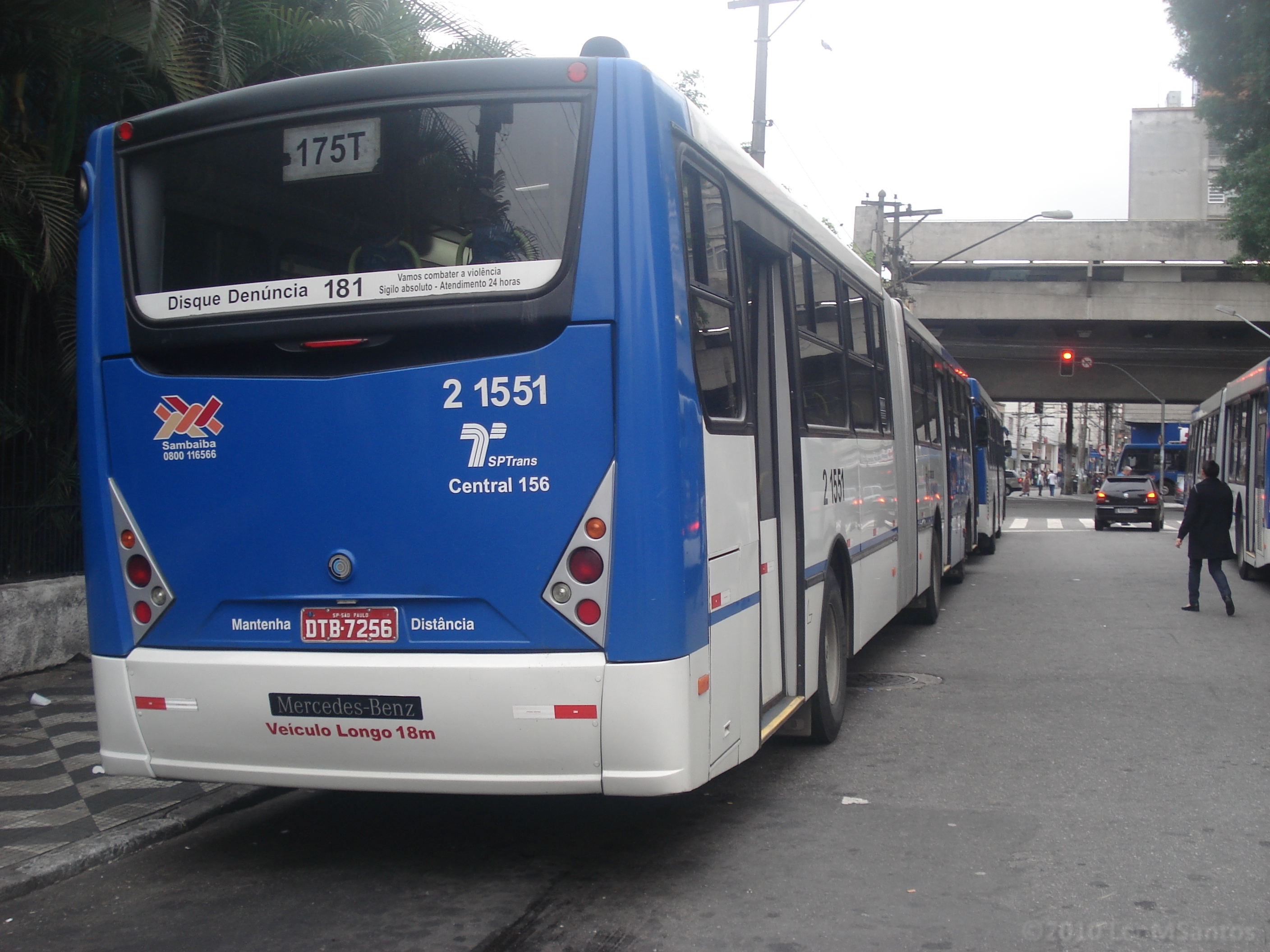 Bus (#2 1551) from São Paulo City. Body: CAIO Induscar Millennium II; Chassis: Mercedes-Benz O-500MA. Bus Company: Sambaíba Transportes Urbanos Ltda. (Sambaíba Urban Transports Limited).